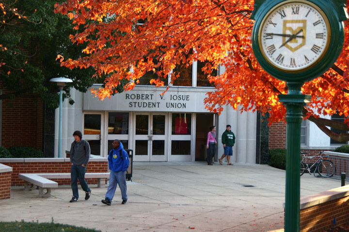 The student union building on the campus of York College of Pennsylvania.